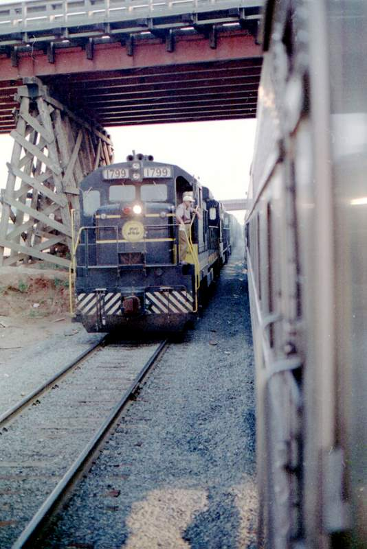 Southeastern US, ca. 1973.